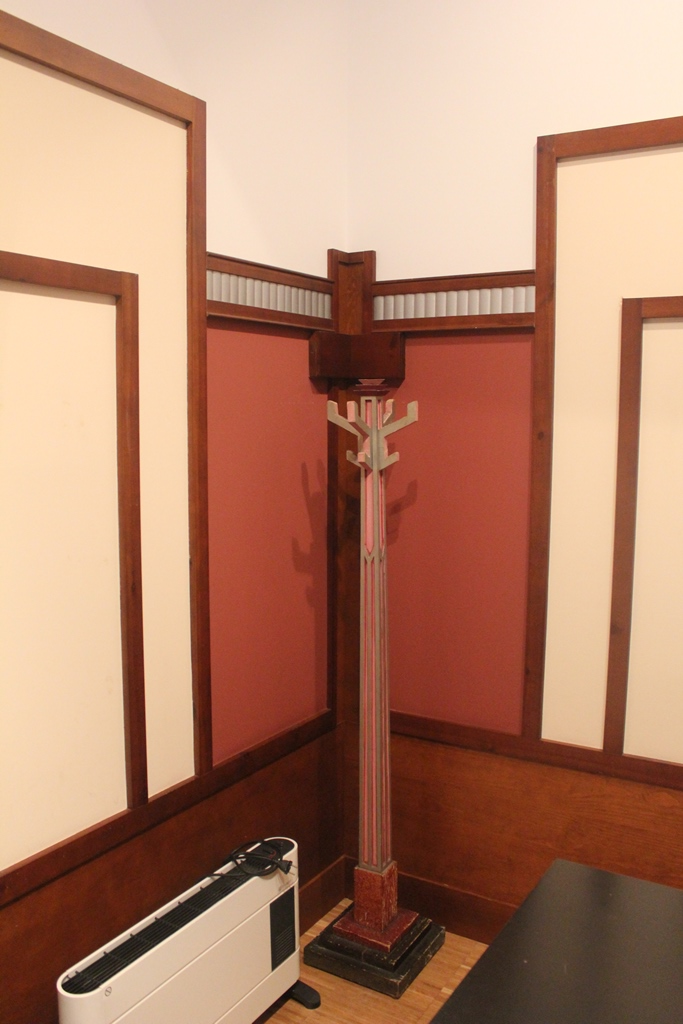 Ca l'Arenas: perxa art déco